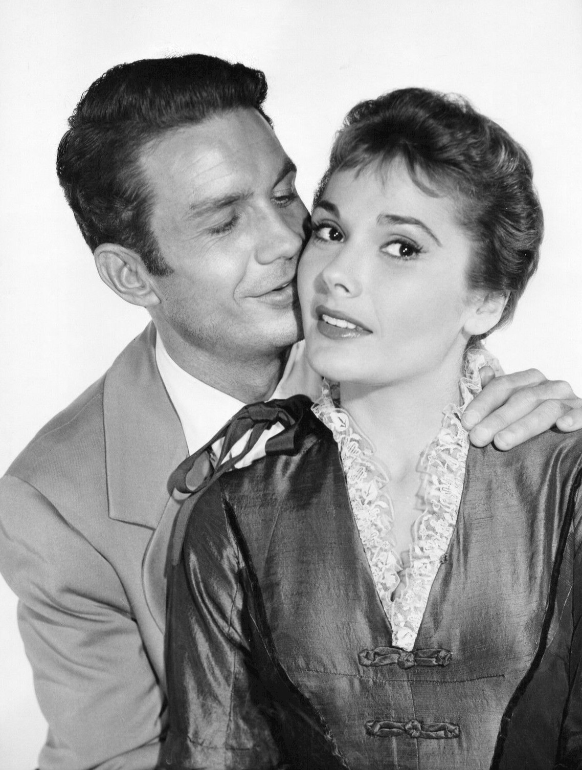 Photo of Cliff Robertson and Felicia Farr in the Playhouse 90 presentation of "Natchez". There are no copyright marks on the item, which can be seen at the link.